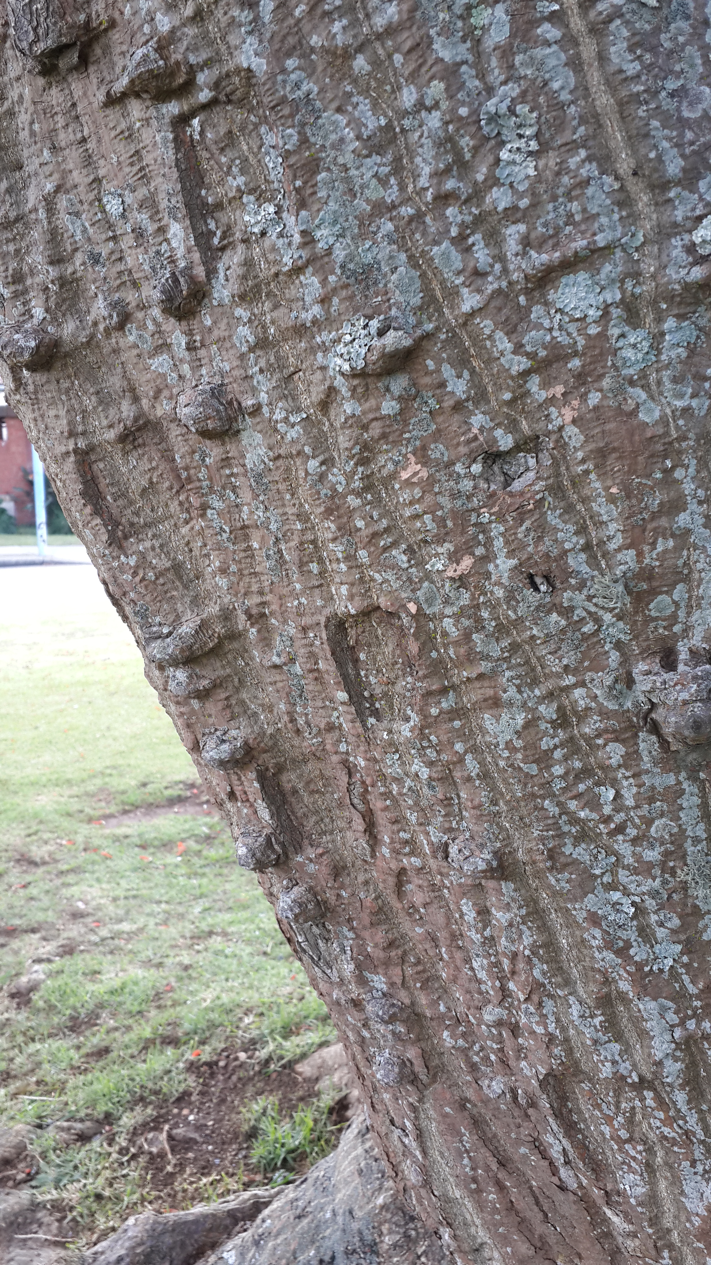 An image showing the trunk of a Coastal Coral tree.